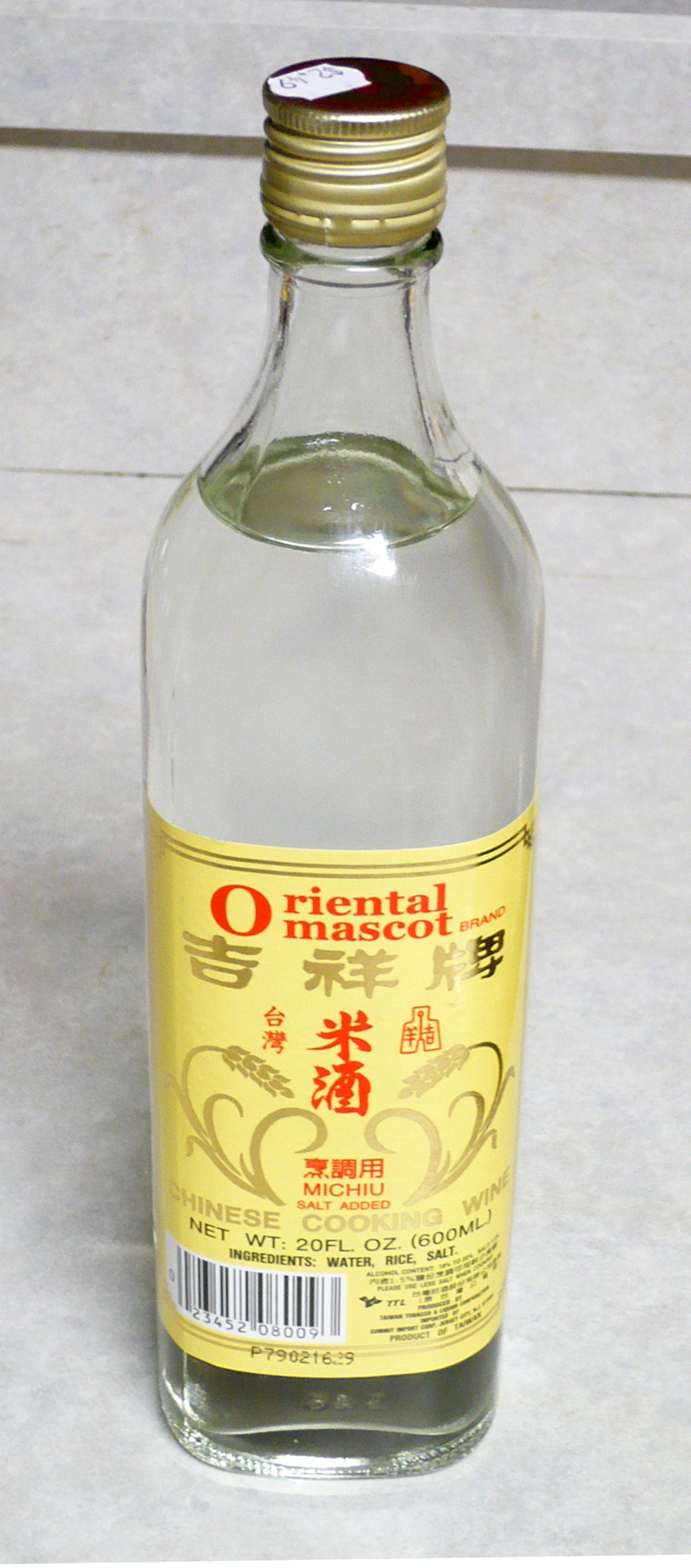 A bottle of Oriental Mascot brand cooking mijiu (fermented rice wine) from Taiwan. Mijiu purchased in a Cleveland, Ohio Asian supermarket. Ingredients: water, rice, salt. Alcohol content: 19% to 20%. Salt: 1.5%. Produced by Taiwan Tobacco & Liquor Corporation.